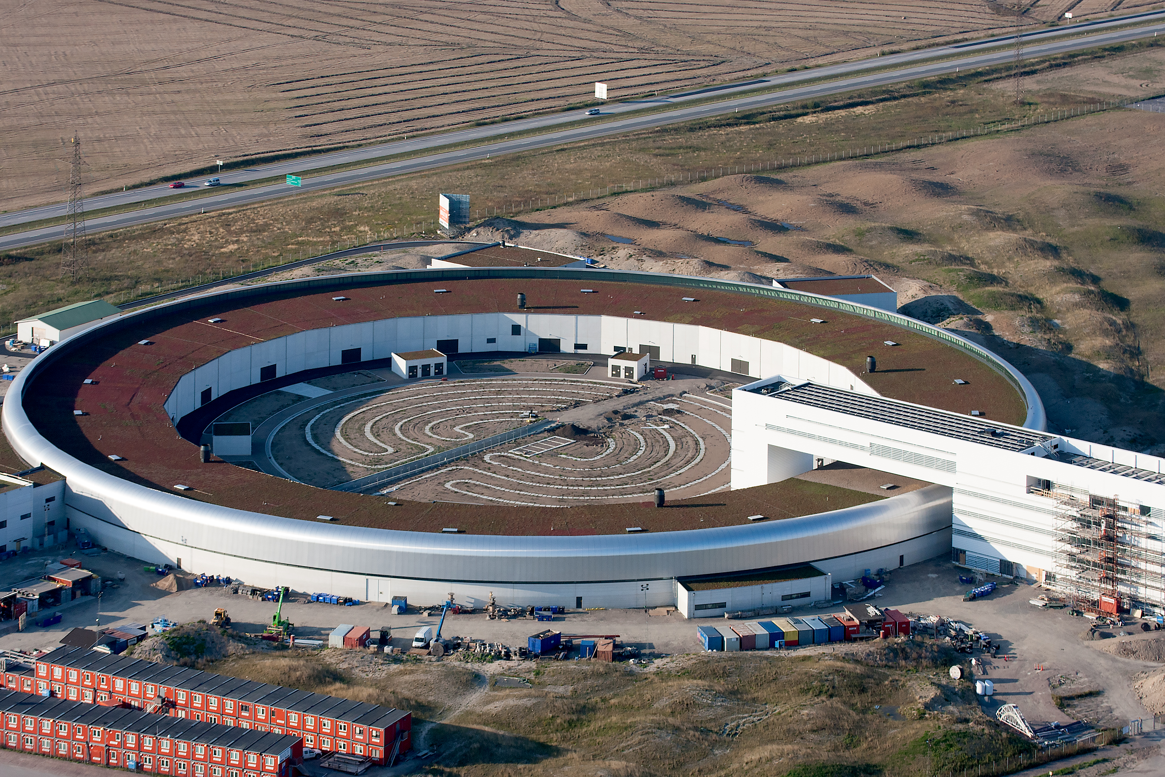 "Max IV" nuclear science lab in Lund, Sweden.